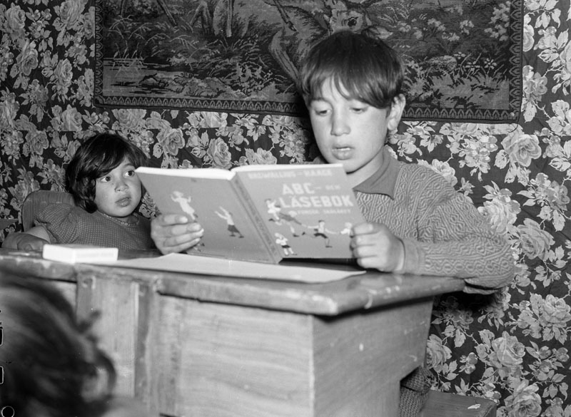 Photo of a Romani buy studying in the first school for Romani people in Stockholm